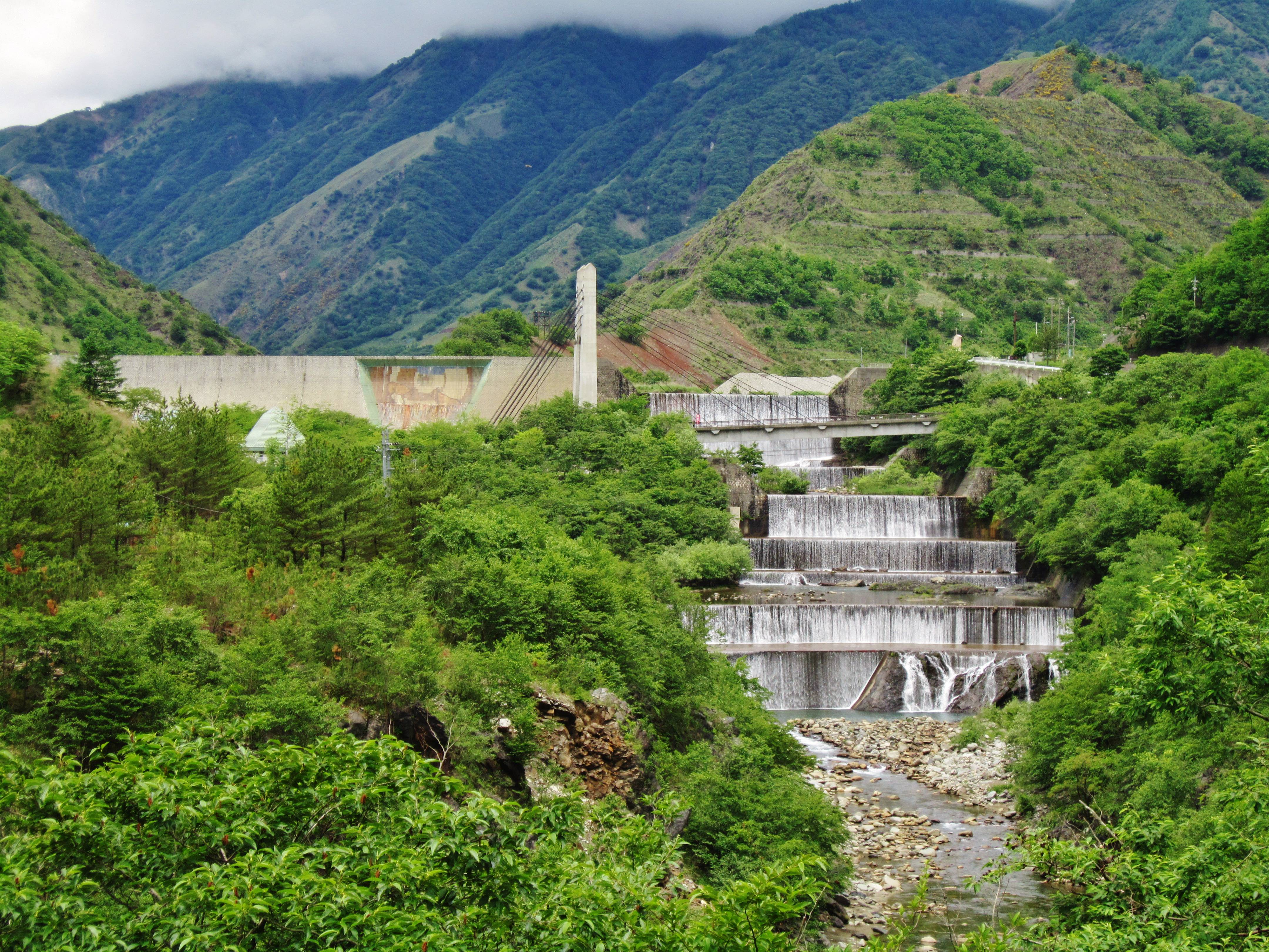 Ashio Dam.